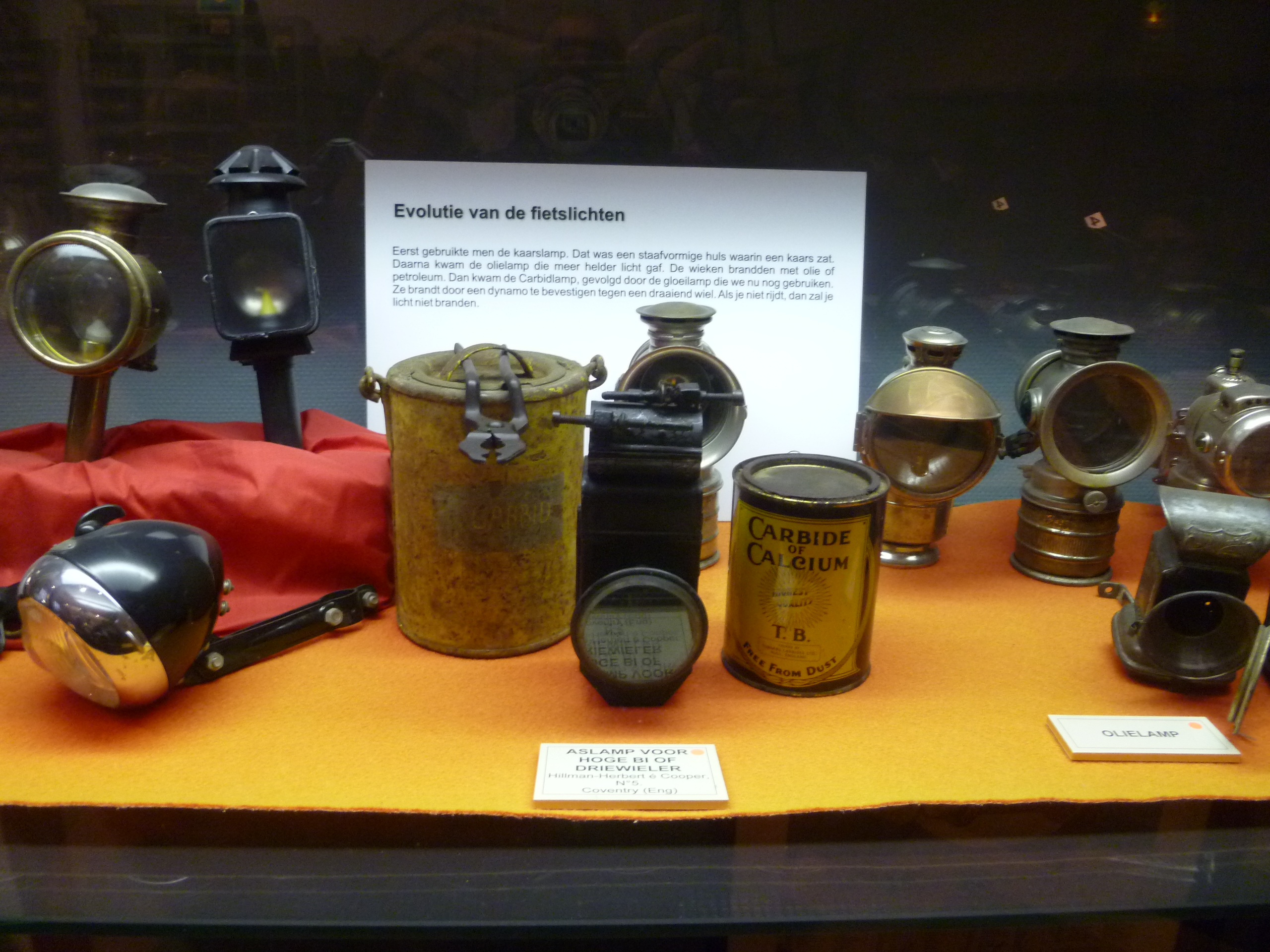 Early bicycle lighting: candle lamps , oil lamps and carbide lamps; Nationaal Wielermuseum (National Bicycle Museum), Roeselare, Belgium